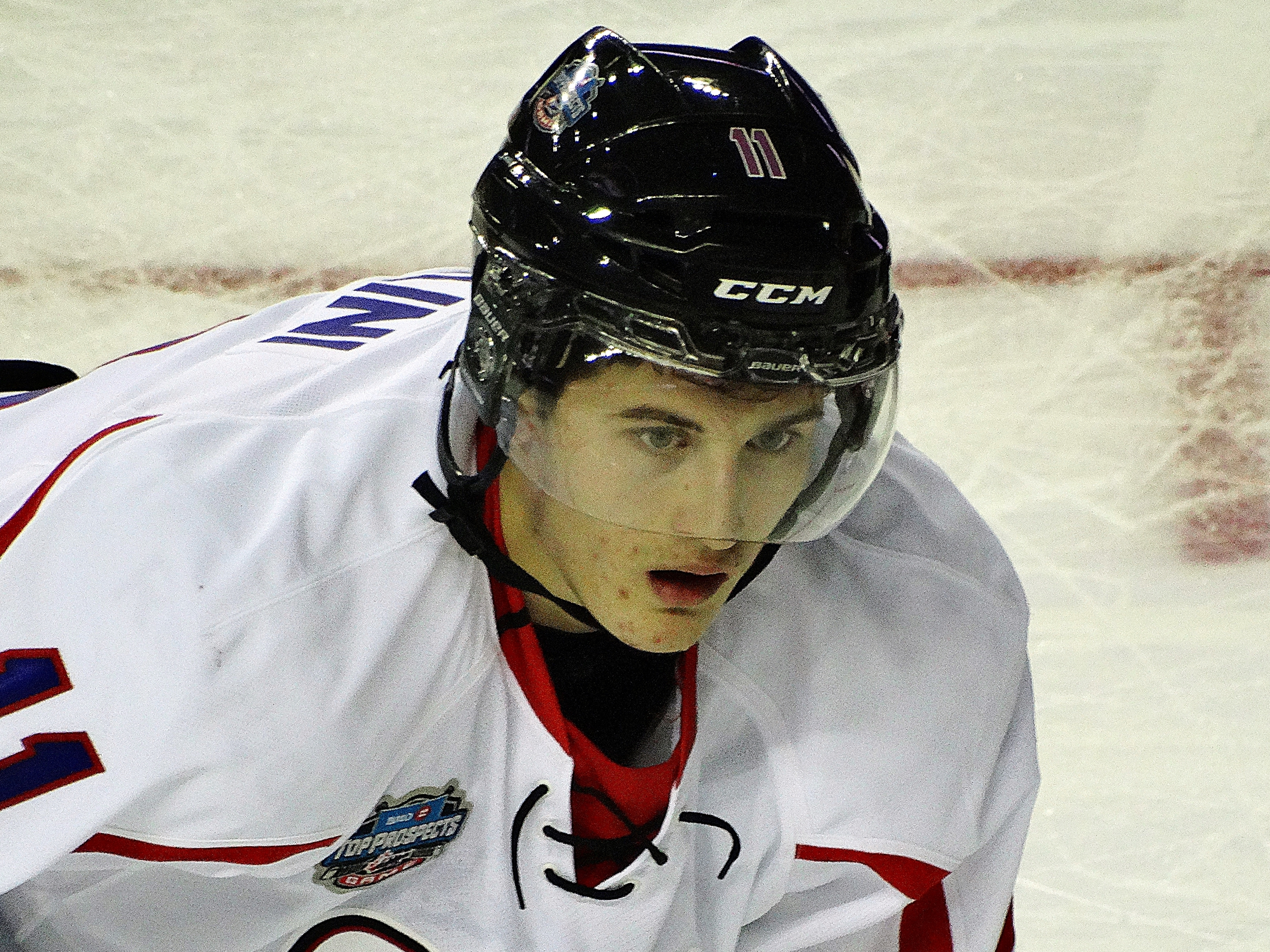 Brendan Perlini, British-Canadian ice hockey left winger at the CHL / NHL Top Prospects Game